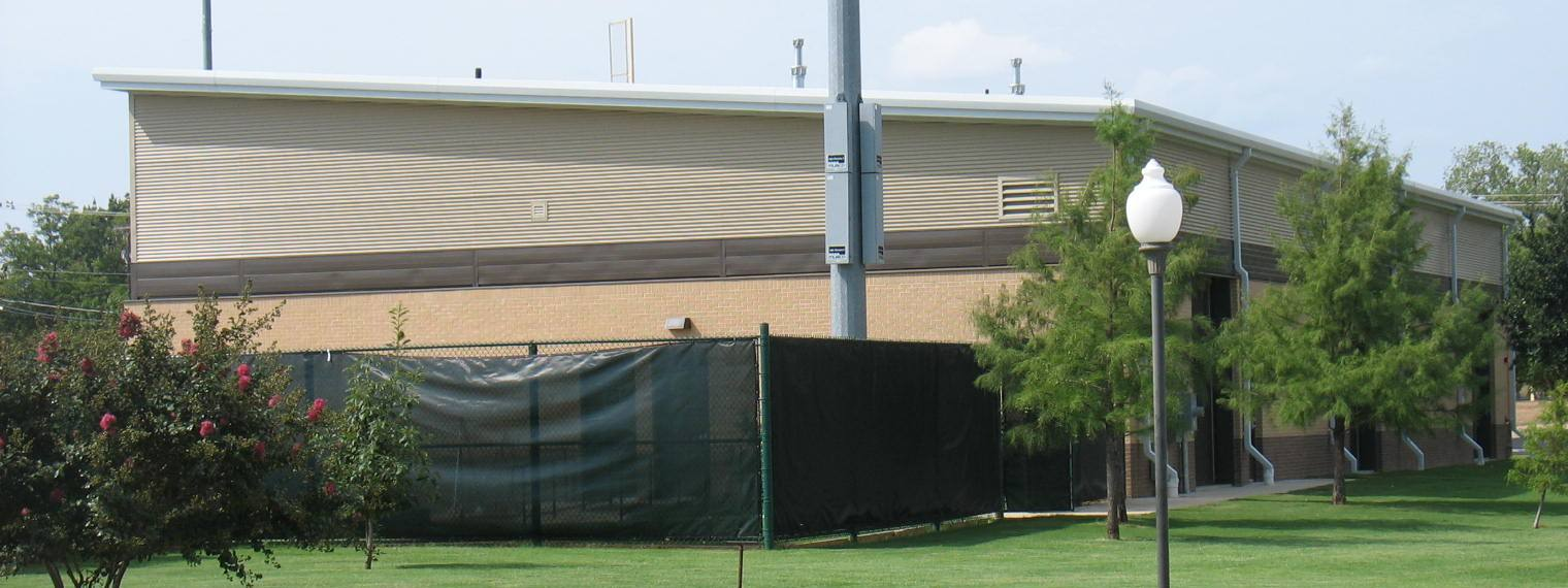 The new indoor practice facility at Clay Gould Ballpark, adjacent to the right field line.